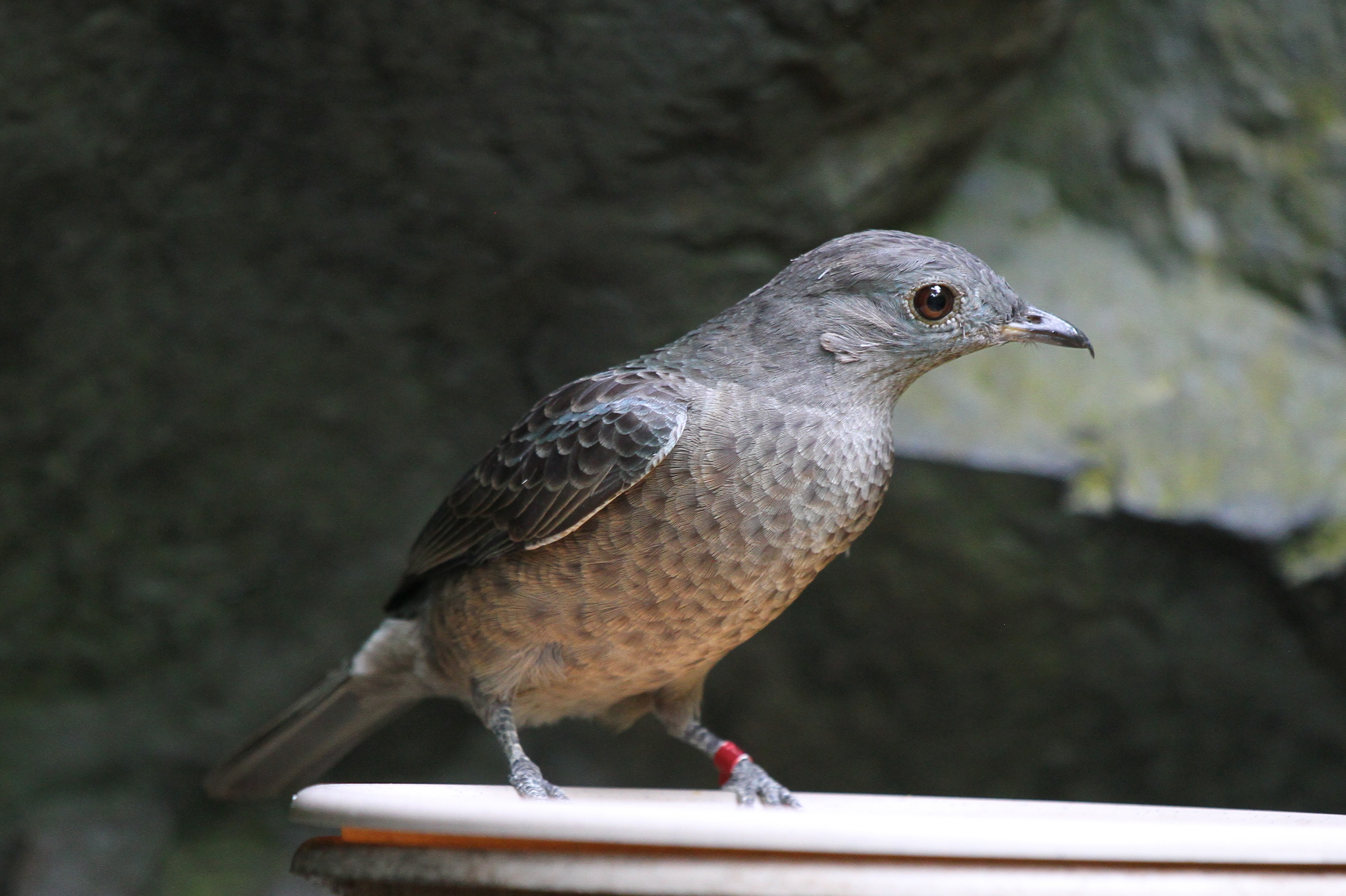 Spangled cotinga female at the Cincinnati Zoo.